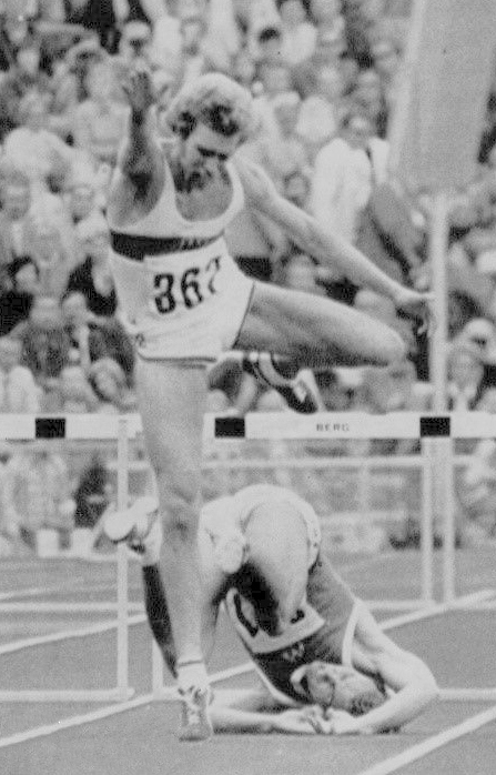 LG10 '72 Wire Photo WOLFGANG BEUTTNER CHRISTIAN RUDOLPH 400m Olympic Hurdle Fall